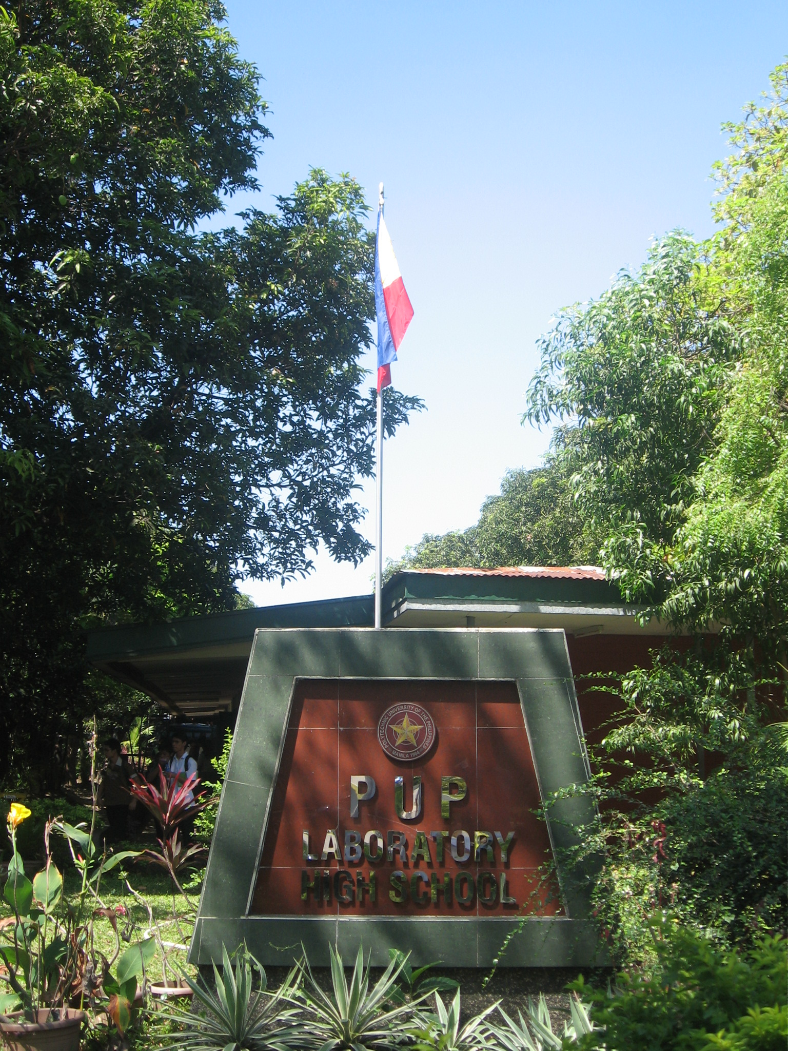 Polytechnic University of the Philippines Laboratory High School